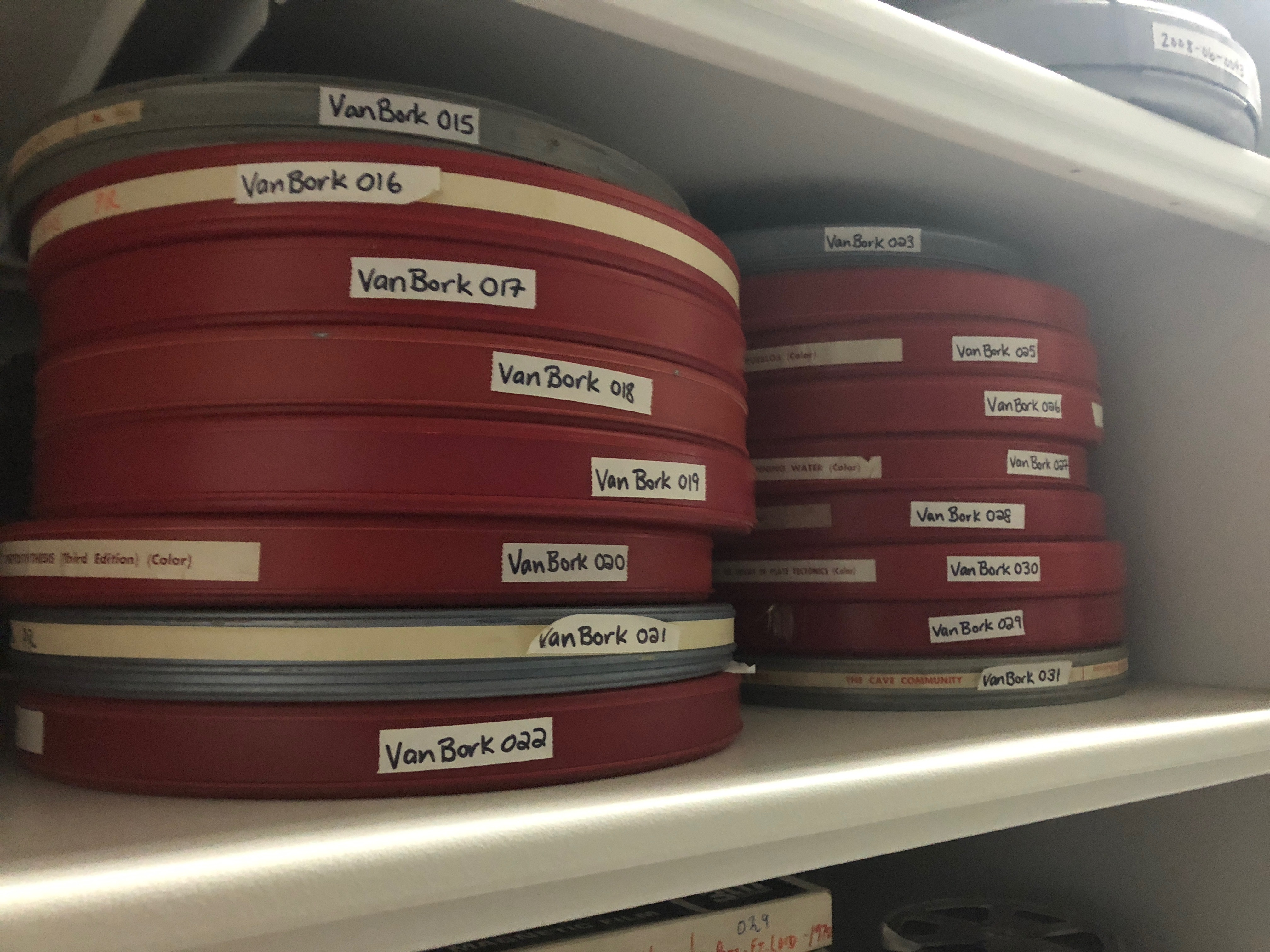 Images of 16 mm films by Bert van Bork